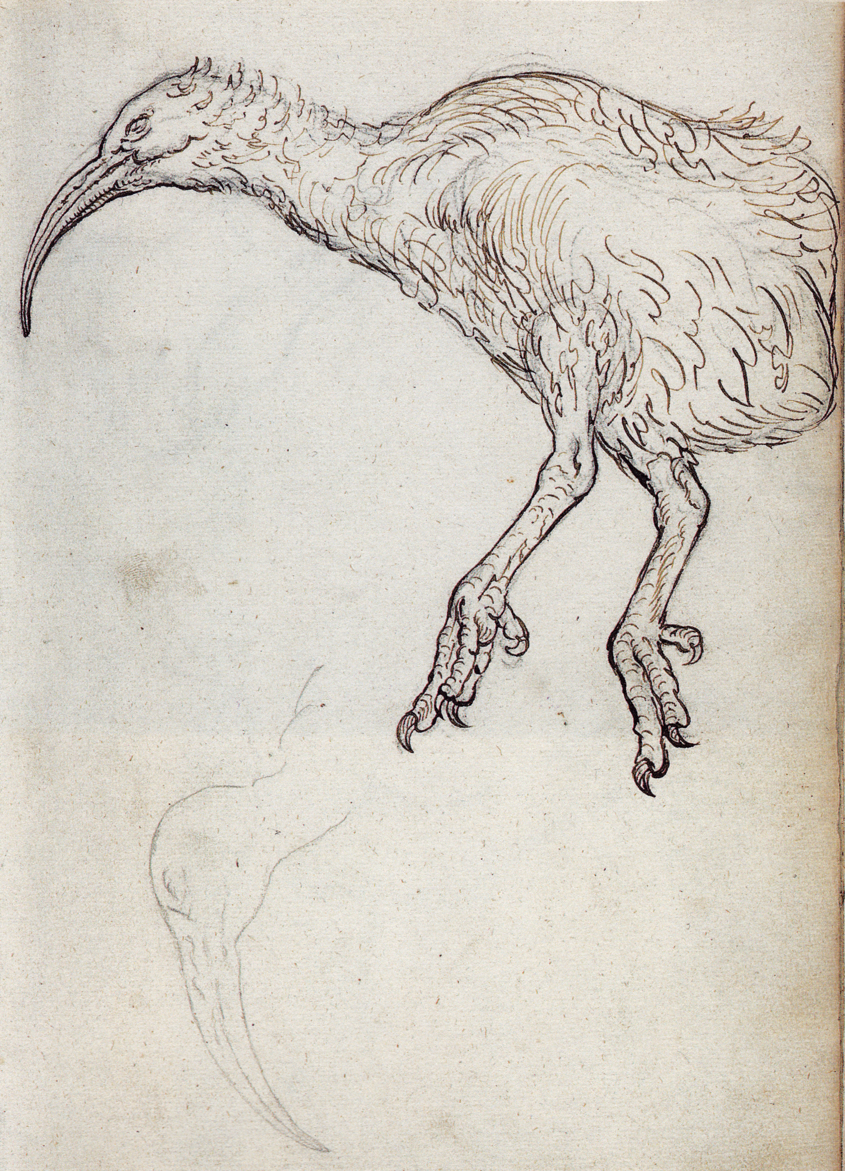 A drawing of a dead Red Rail or Red Hen of Mauritius (Aphanapteryx bonasia) with below a sketch of the head in graphite. An extinct rail species from Mauritius.